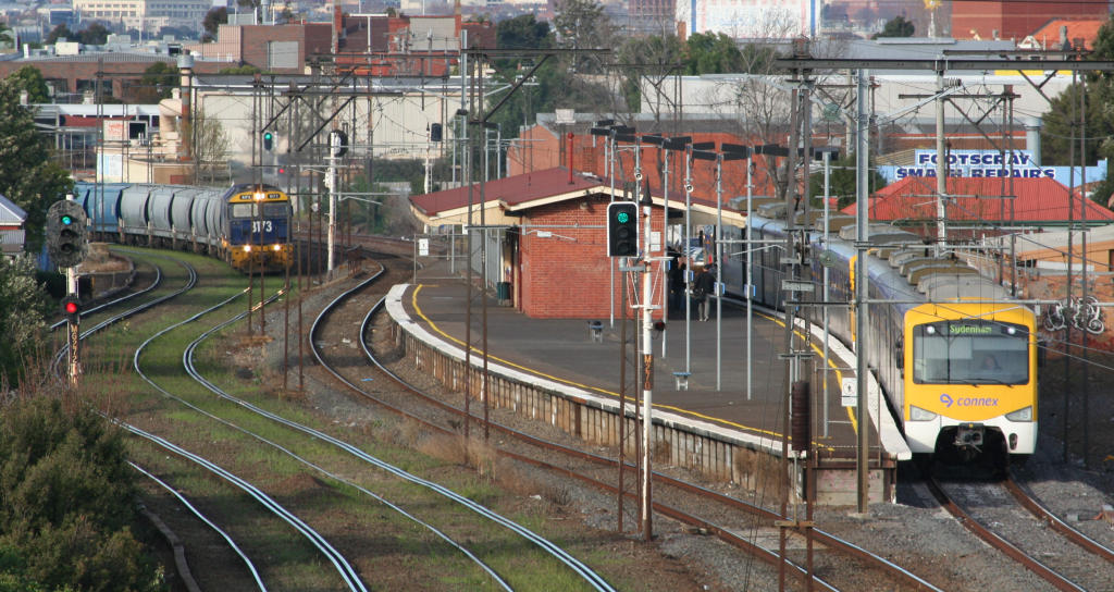 Middle Footscray from the down end footbridge. Siemens train overtaken by a standard gauge freight.